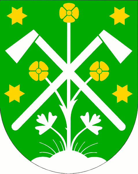 Municipal coat of arms of Olomučany village, Blansko District, Czech Republic.